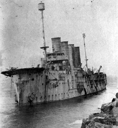 Imperial Russian cruiser Gromoboy in Liepāja.